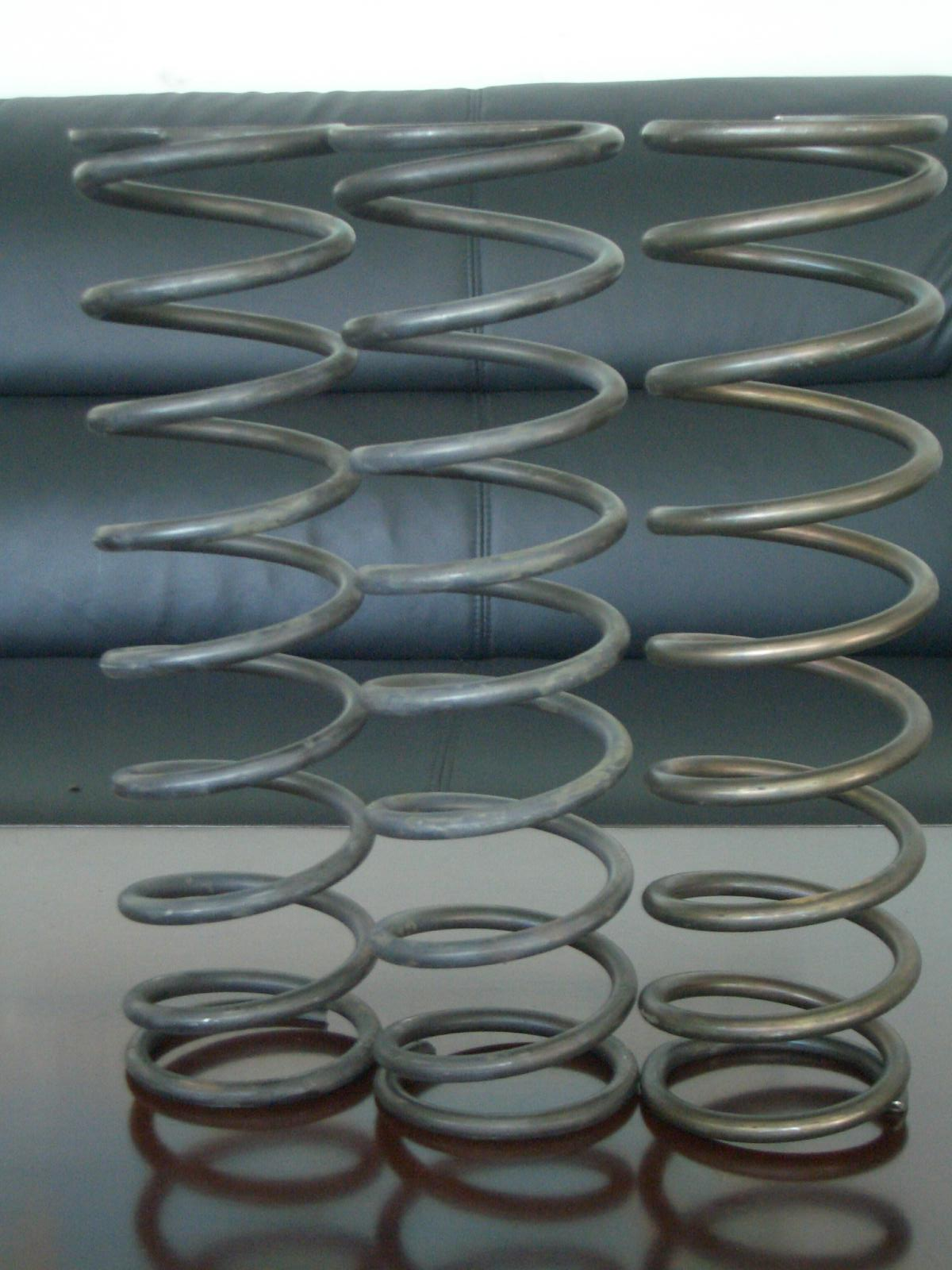 Inconel springs for check valves. Valves and are generally made of plastic or steel, the latter being the most widely used in chemical and petrochemical applications. Steel grades range from the most common type, namely carbon steel, with standard stainless steel being the second most common. Stainless steel alloys, which include nickel or copper are used in applications that require higher corrosion or heat resistance. In such cases, the most commonly used valve configurations -- ball valves, gate valves, check valves, globe valves and butterfly valves -- are often forged or cast as duplex valves, super duplex valves, alloy 20 valves, monel valves, inconel valves, incoloy valves and 254 SMO valves (6Mo valves). Titanium valves are also used in some highly corrosive applications. Titanium is not a stainless steel alloy.